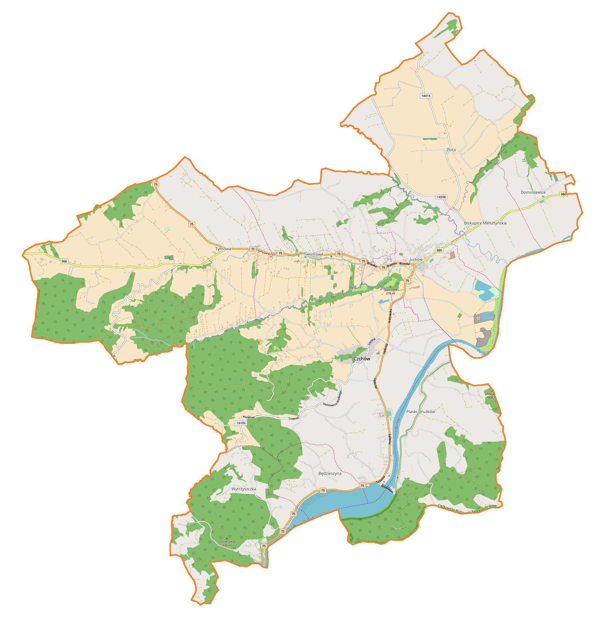 Location map